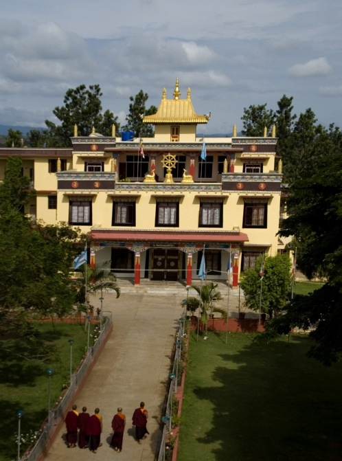 Photo of the Namdroling Monastery Shedra by Andy. Released under a 2.0 Share Alike license. Cropped slightly at the bottom to remove previous copyright warning from before release.